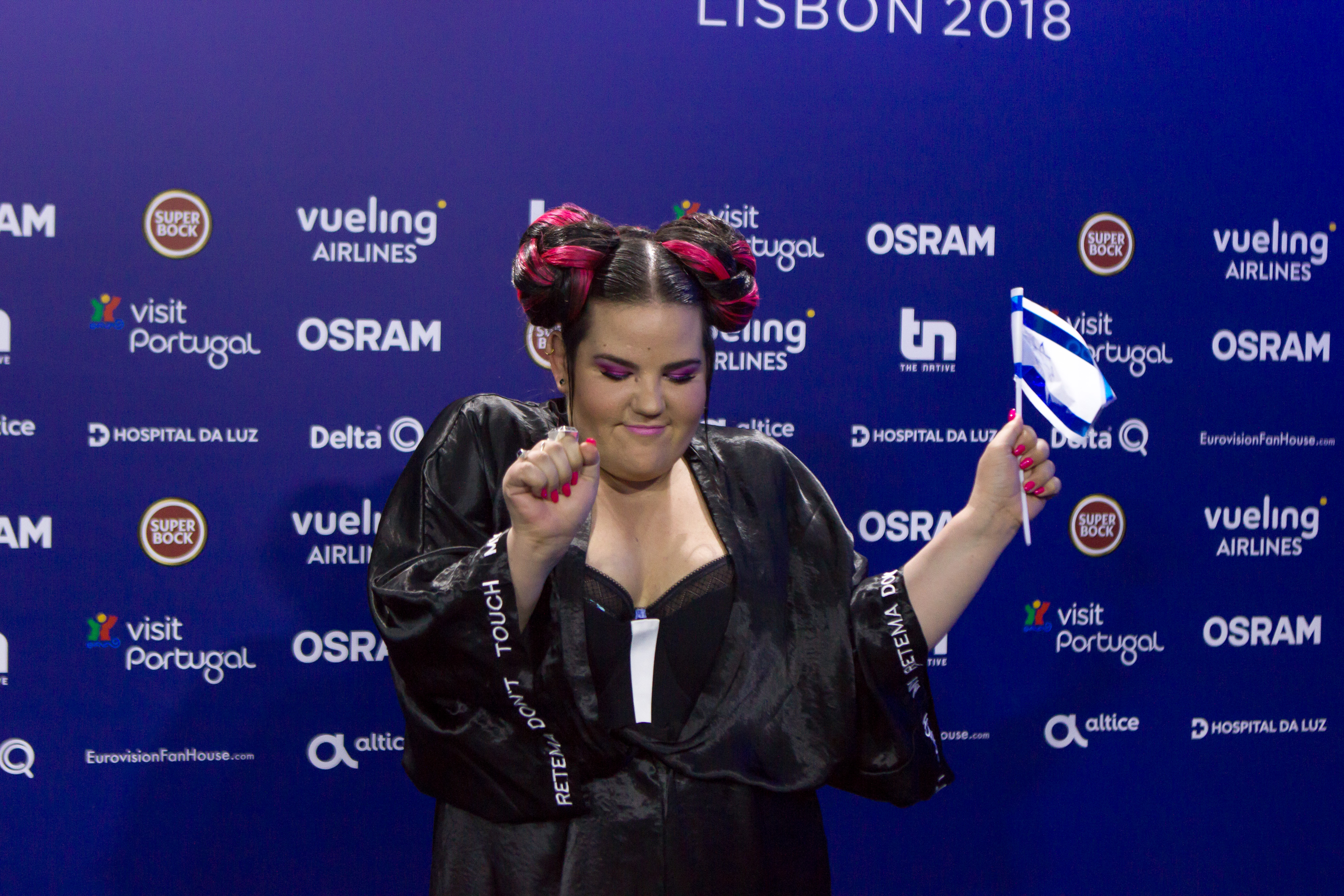 Press conference after the first Semi-Final of the 2018 Eurovision Song Contest